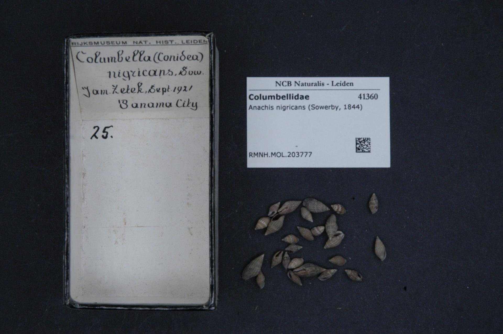 Anachis nigricans (Sowerby, 1844)